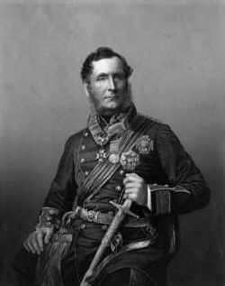 Photograph of General Sir Robert John Hussey Vivian